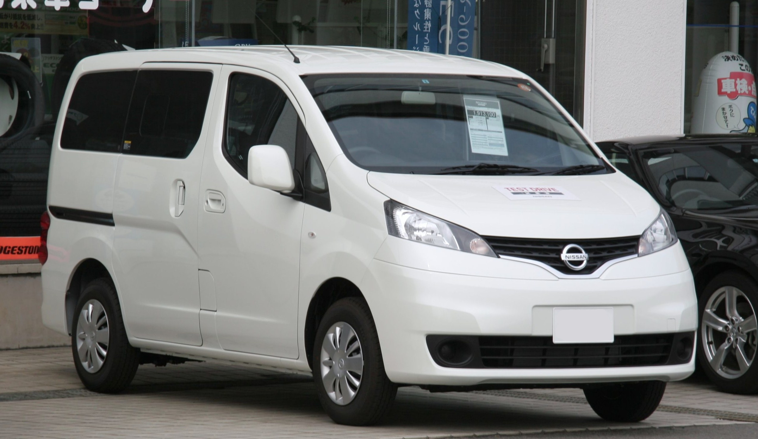 NISSAN NV200 VANETTE